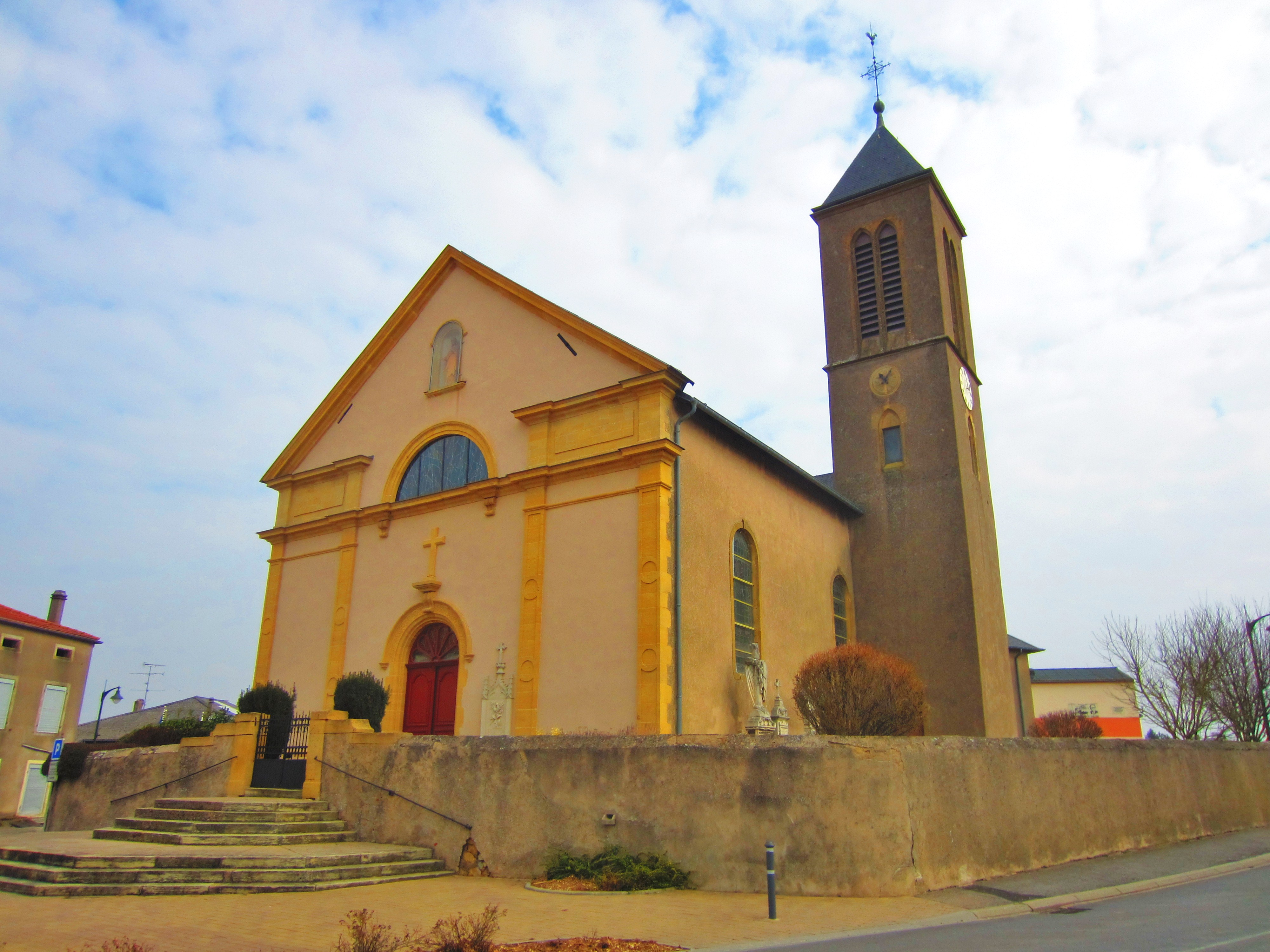 Metzeresche church